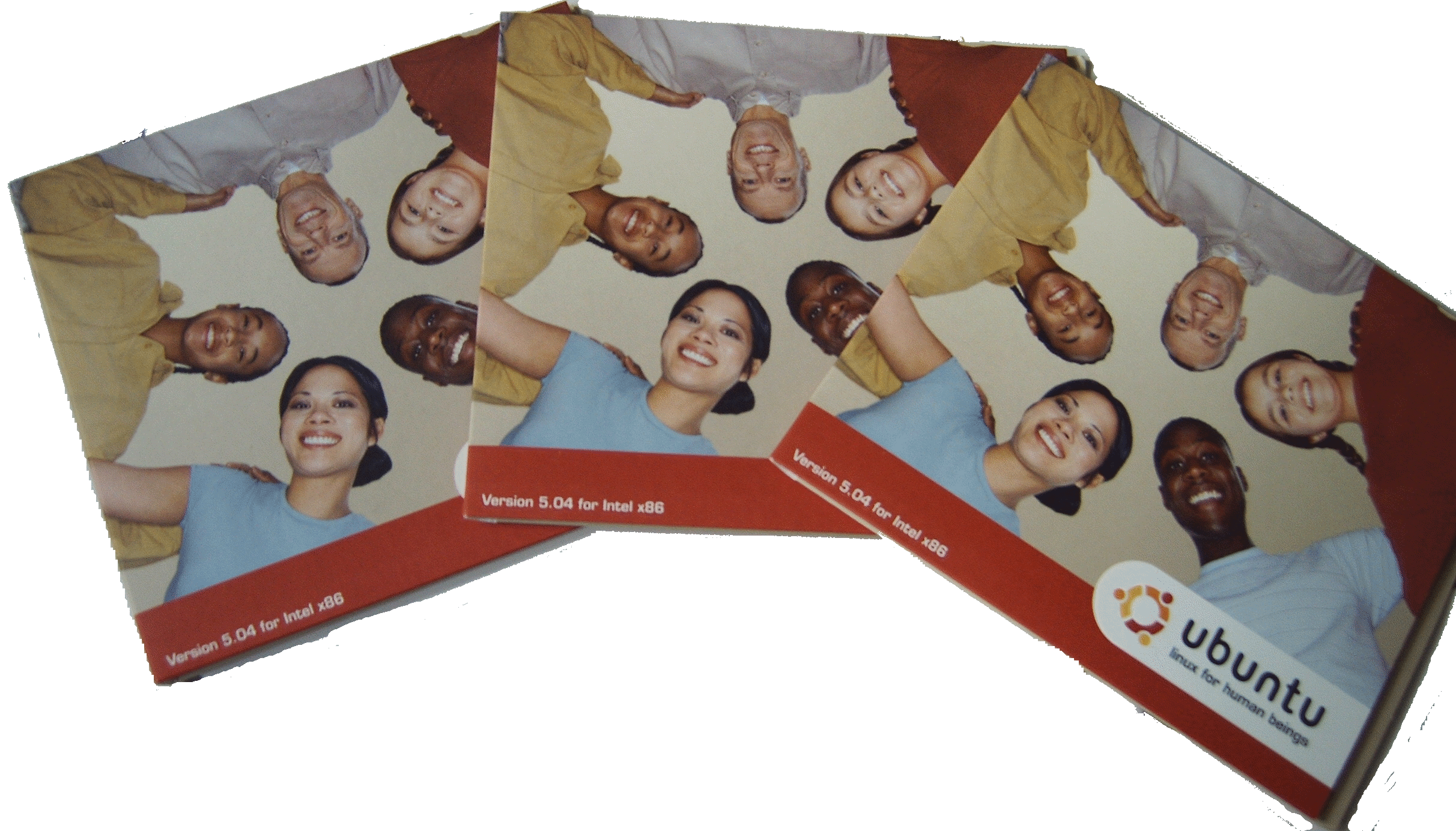 Ubuntu-Linux Version 5.04 for x86 (32-bit) (transparency)